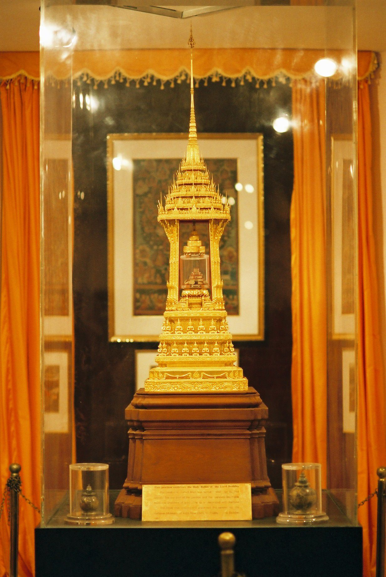 本物の仏舎利を収めた仏塔 (2005/01/22 National Museum, Delhi, INDIA) A small Buddhist Stupa containing relics of Buddha, from a stupa built by Emperor Asoka in 3rd century BCE